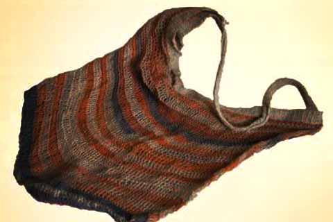 Noken, traditional bag of Papua